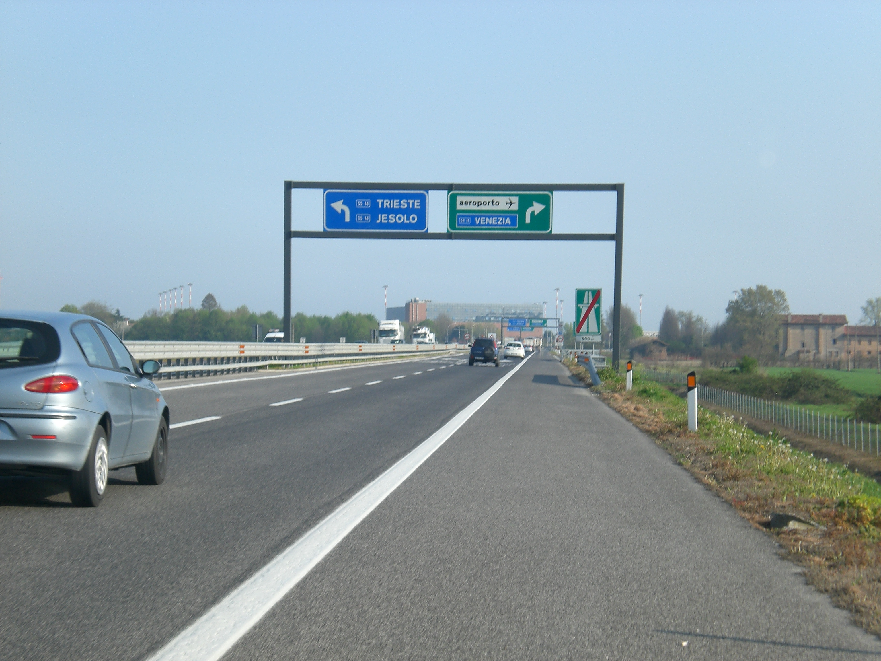 Italy: motorway A57